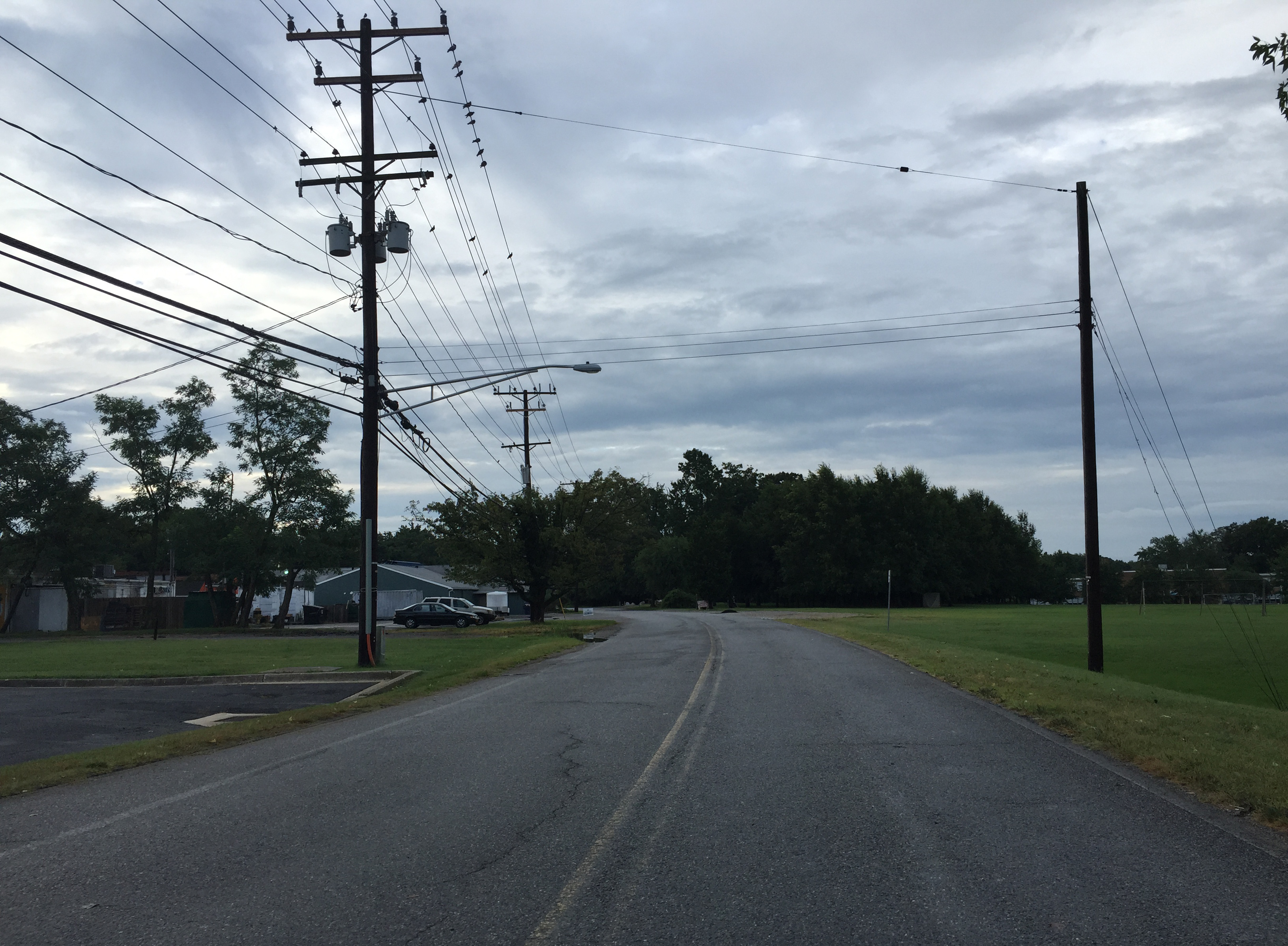 View south along Maryland State Route 788 (Old Forest Drive) at Maryland State Route 387 (Spa Road) in Annapolis, Anne Arundel County, Maryland